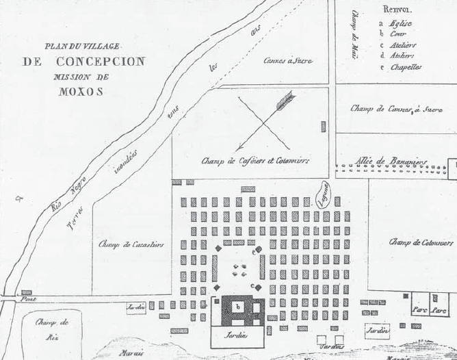 Layout plan of the Jesuit mission Concepción de Moxos. a: church, b: convent, c,d: ateliers, e: chapels